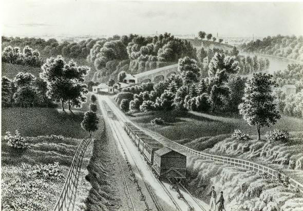 "From the Inclined Plane, near Philadelphia". Lithograph of the Philadelphia & Columbia Railroad's inclined plane up Belmont Hill, Fairmount Park, Philadelphia.